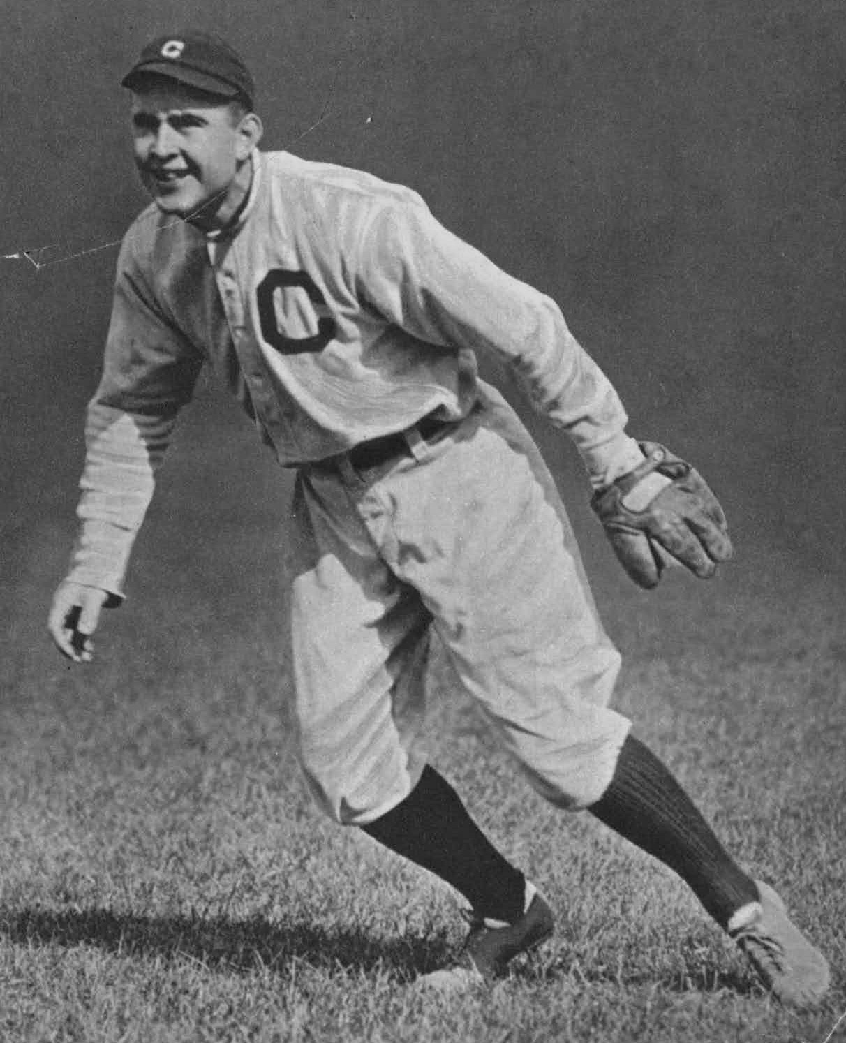 Professional baseball player Joe Birmingham as a member of the Cleveland Naps in 1913.